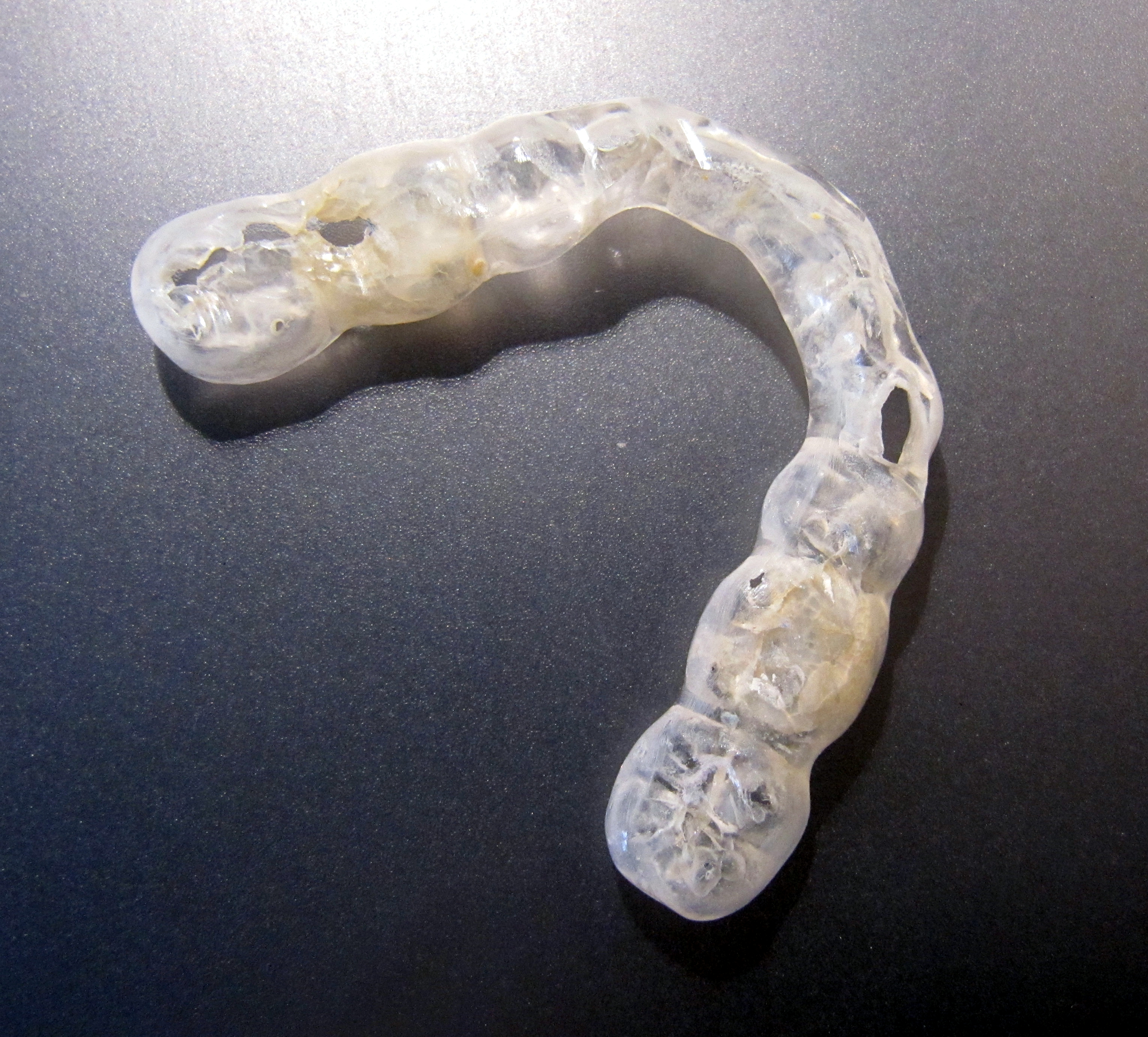 A bite splint after eight years of usage